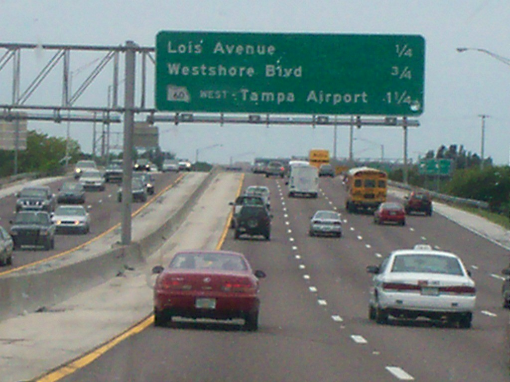 Interstate 275 (Florida) in the WestShore area near Tampa.